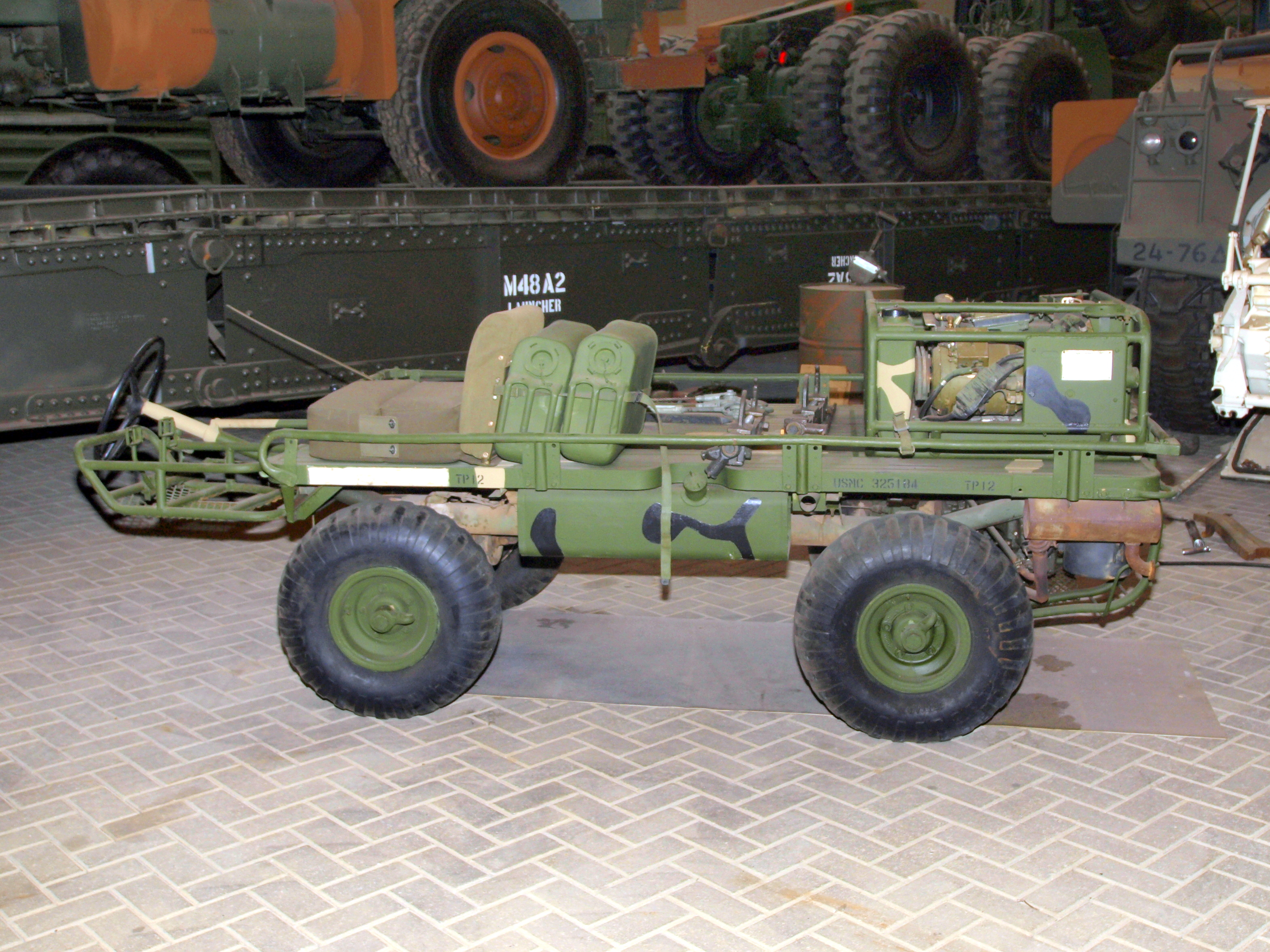 Photographed at the Marshallmuseum - Liberty Park - Oorlogsmuseum Overloon, The Netherlands.